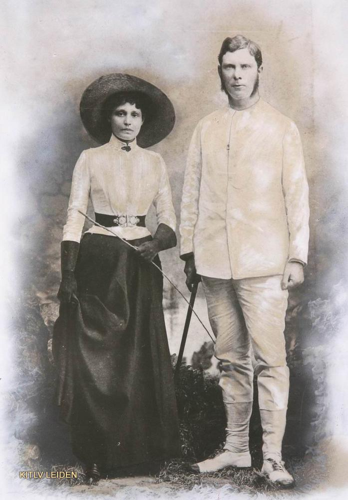 Jacob Theodoor Cremer (1860)